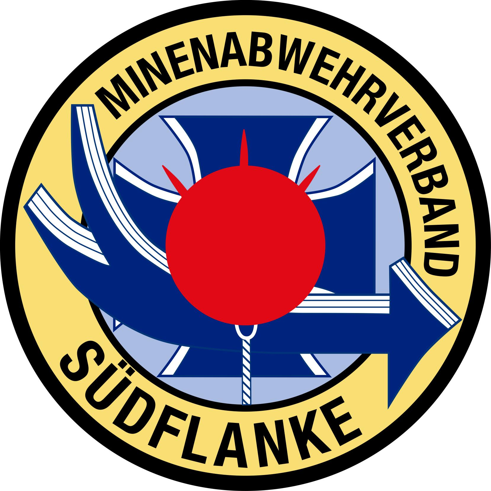 Internal coat of arms Operation Südflanke of the Bundeswehr (Armed Forces of the Federal Republic of Germany). → Remarks on naming and categorization scheme